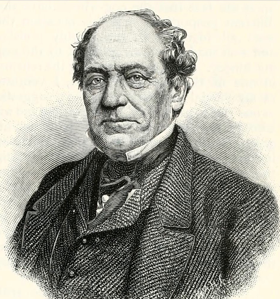 Portrait of American actor Henry Placide